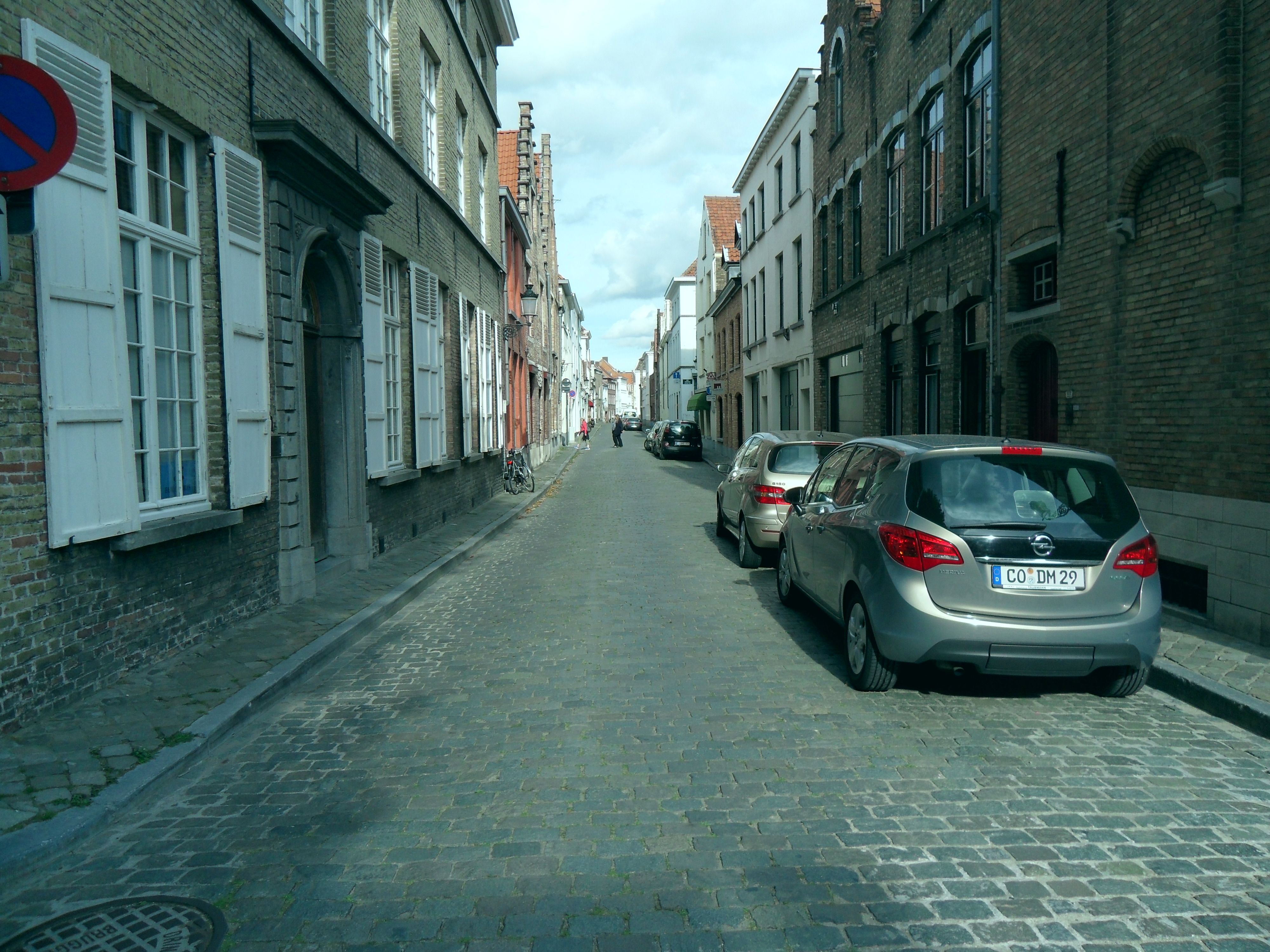 Waalsestraat, Brugge